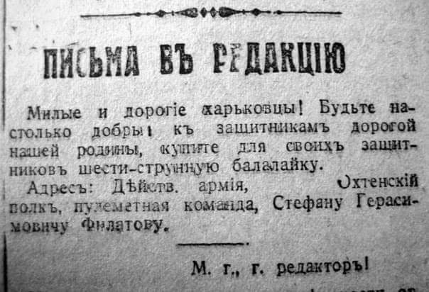 Letter to newspaper from soldier of Russian army, 1915.